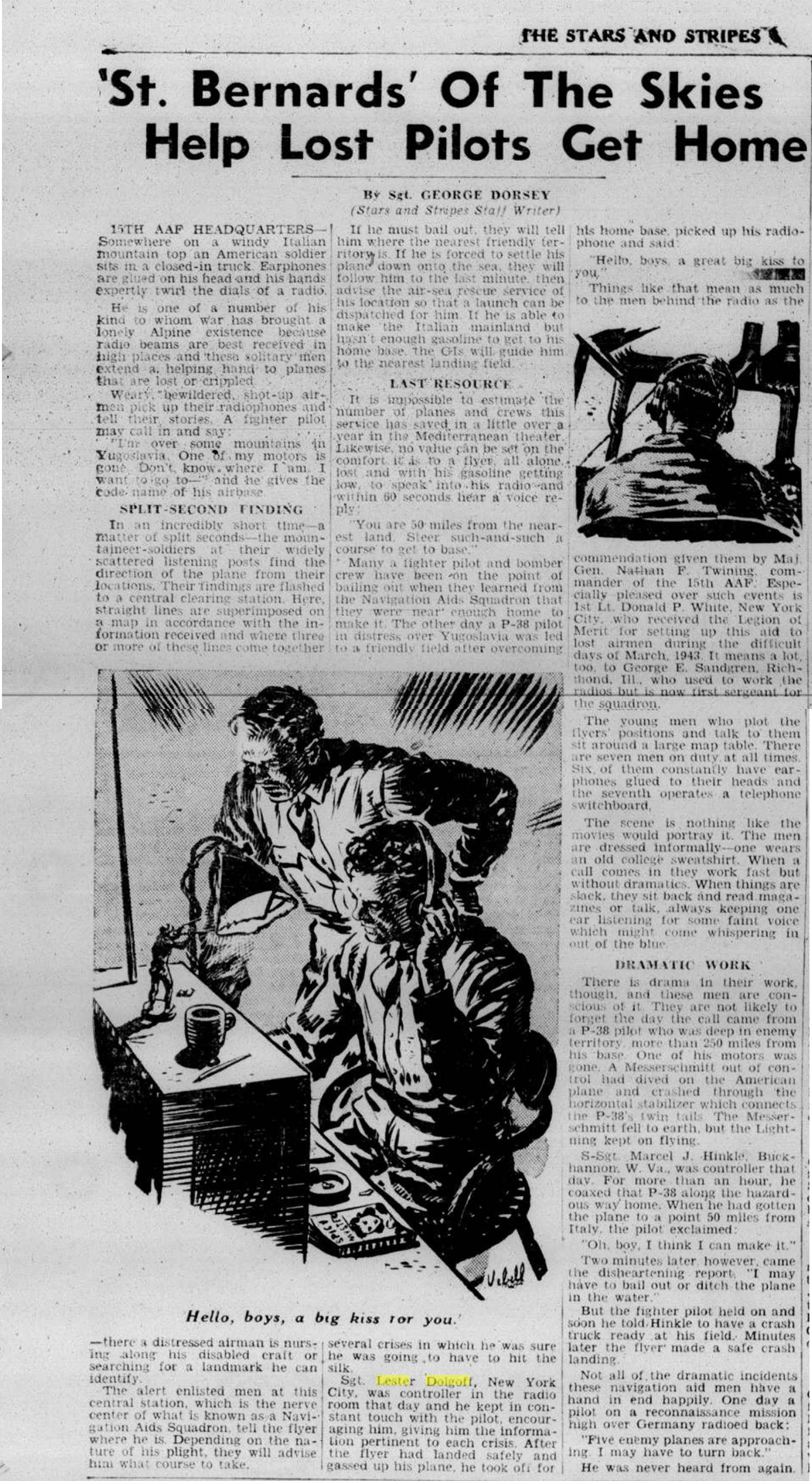 Publication: Sicily Stars and Stripes April 25, 1944, p.3